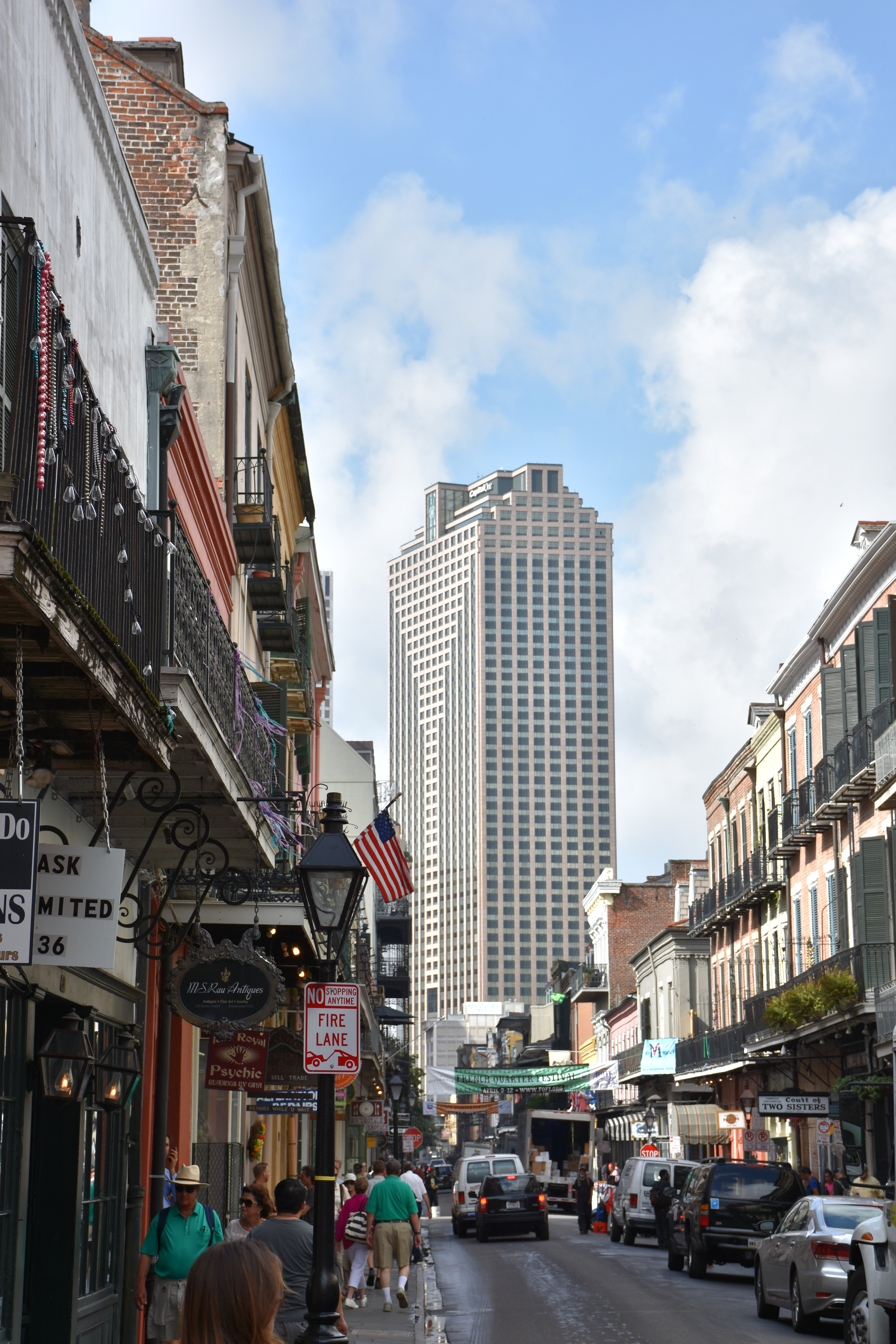 Looking southwest down Royal Street, New Orleans during the French Quarter Festival in April of 2015